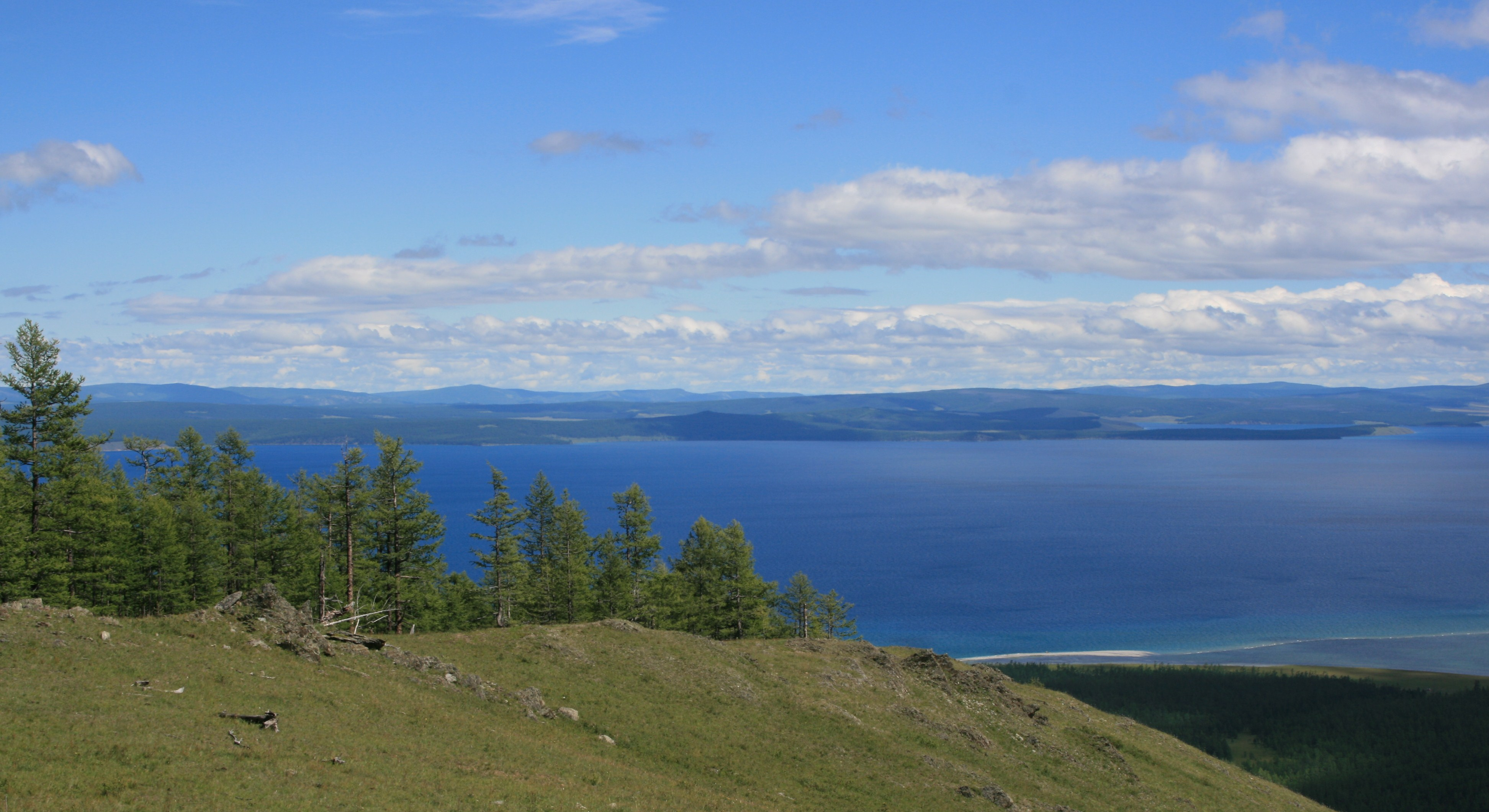 View across Hovsgol Nuur from the hills north-west of Ongolog nuur.